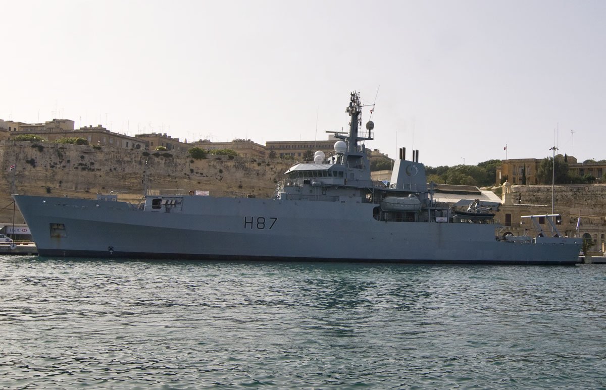 Royal Navy hydrographic survey ships HMS Echo, dockside in Kalkara (NOT Valletta), Malta.